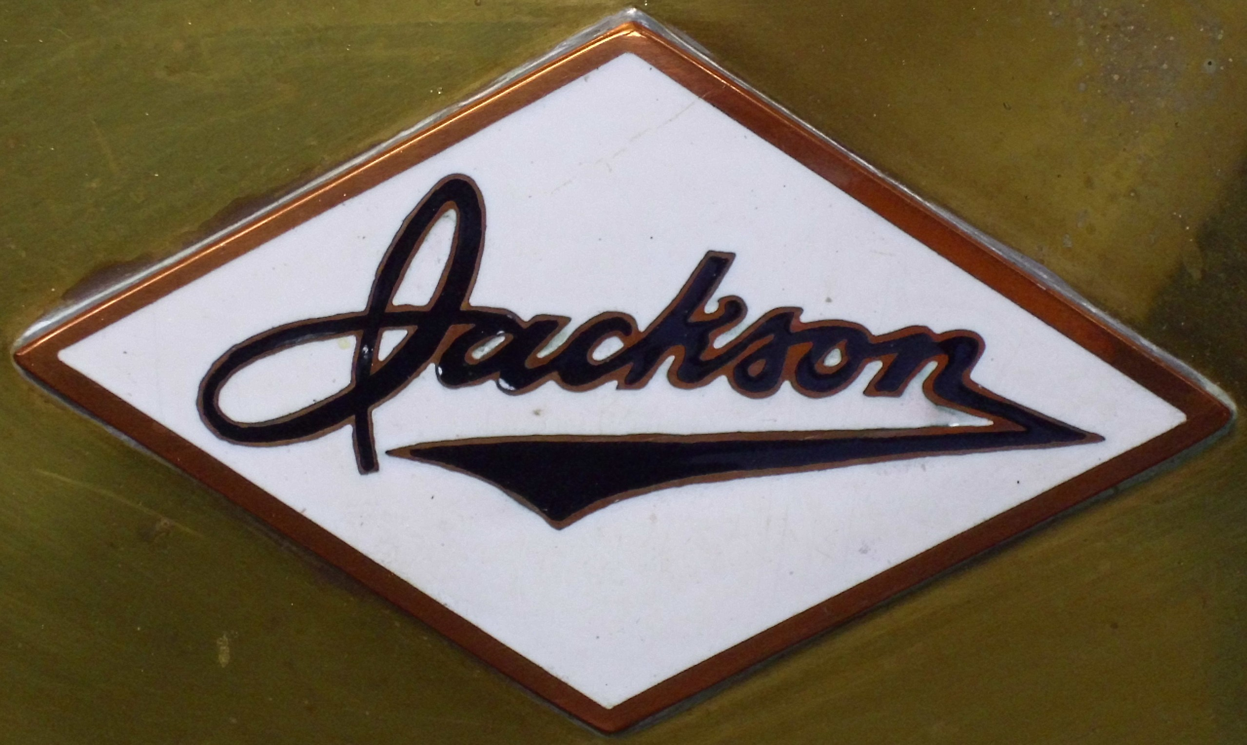 Emblem Jackson